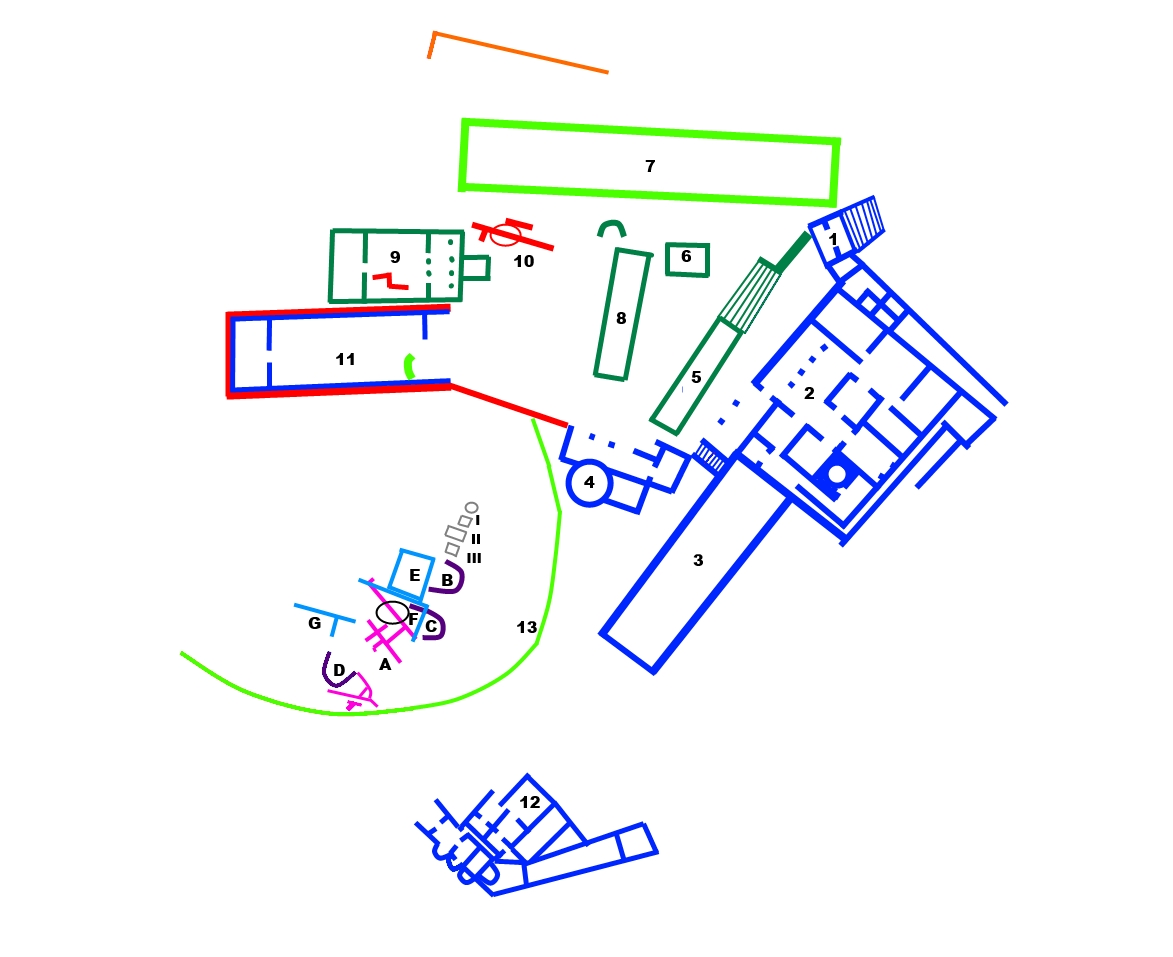 Plan of the Sanctuary of Apollo Maleatas:Gray: Early Helladic I (tomb I–III and tumulus)Pink: Early Helladic II, 1 (house A)Purple: Early Helladic II, 2 (houses A, B and C)Light blue: Early Helladic II, 3 (houses E, F and G)Black: Early Helladic III–Middle Helladic (ritual pit)Red: Mycenaean10 = Small terrace with round altar11 = Big terrace Orange: ArchaicDark green: Classic5 = Temenos of the muses6 = Treasury / small temple8 = Monumental altar9 = Temple of Apollo Maleataslight green: Hellenistic7 = Stoa13 = Analemma wallBlue: Roman1 = Propylon2 = Skana / house of the priest3 = Cistern4 = Nymphaeum11 = Peribolos with adyton12 = Roman bath